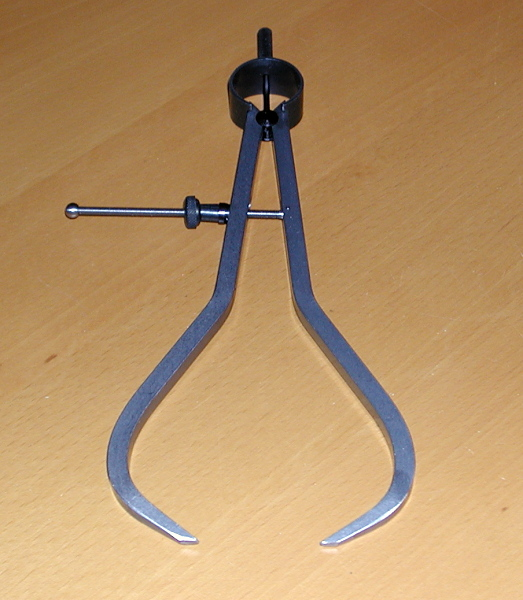 Spring Outside Caliper: With the big bow in the caliper you can measure e.g. the thinkness of tubewalls. With the screw and spring you can make a fine and stable adjustment.